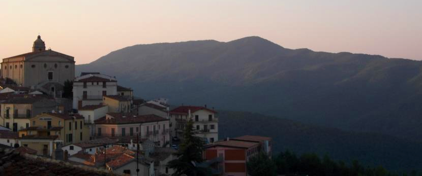 View of Accettura (Matera, Italy)